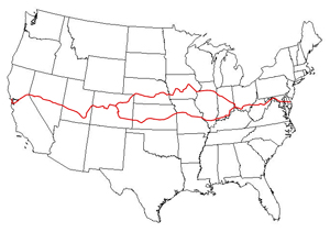 Map created by me to illustrate where the American Discover Trail leads.